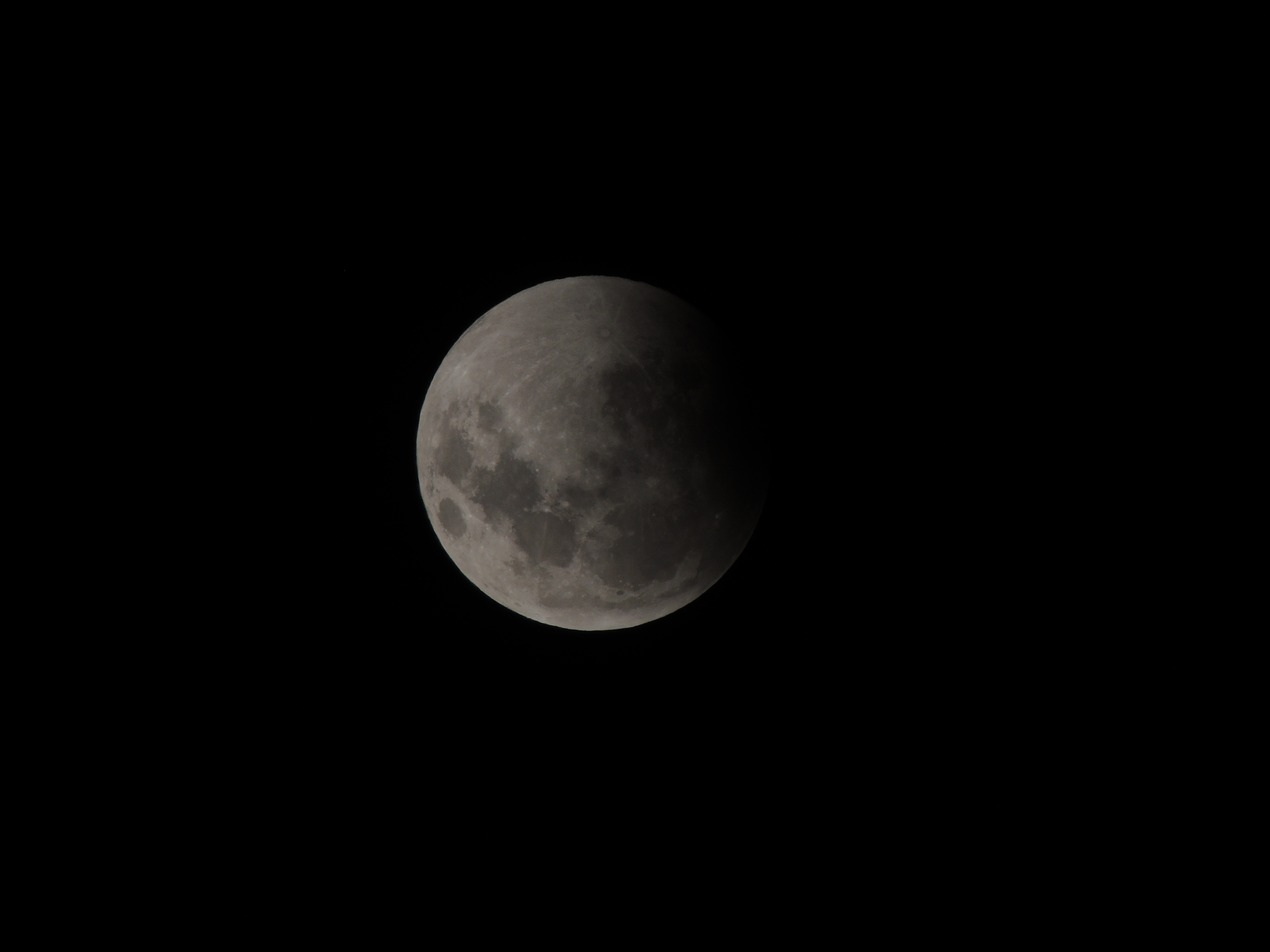 The lunar eclipse of the 21st of January 2019 as seen from M.B Gonnet, Buenos Aires, Argentina.